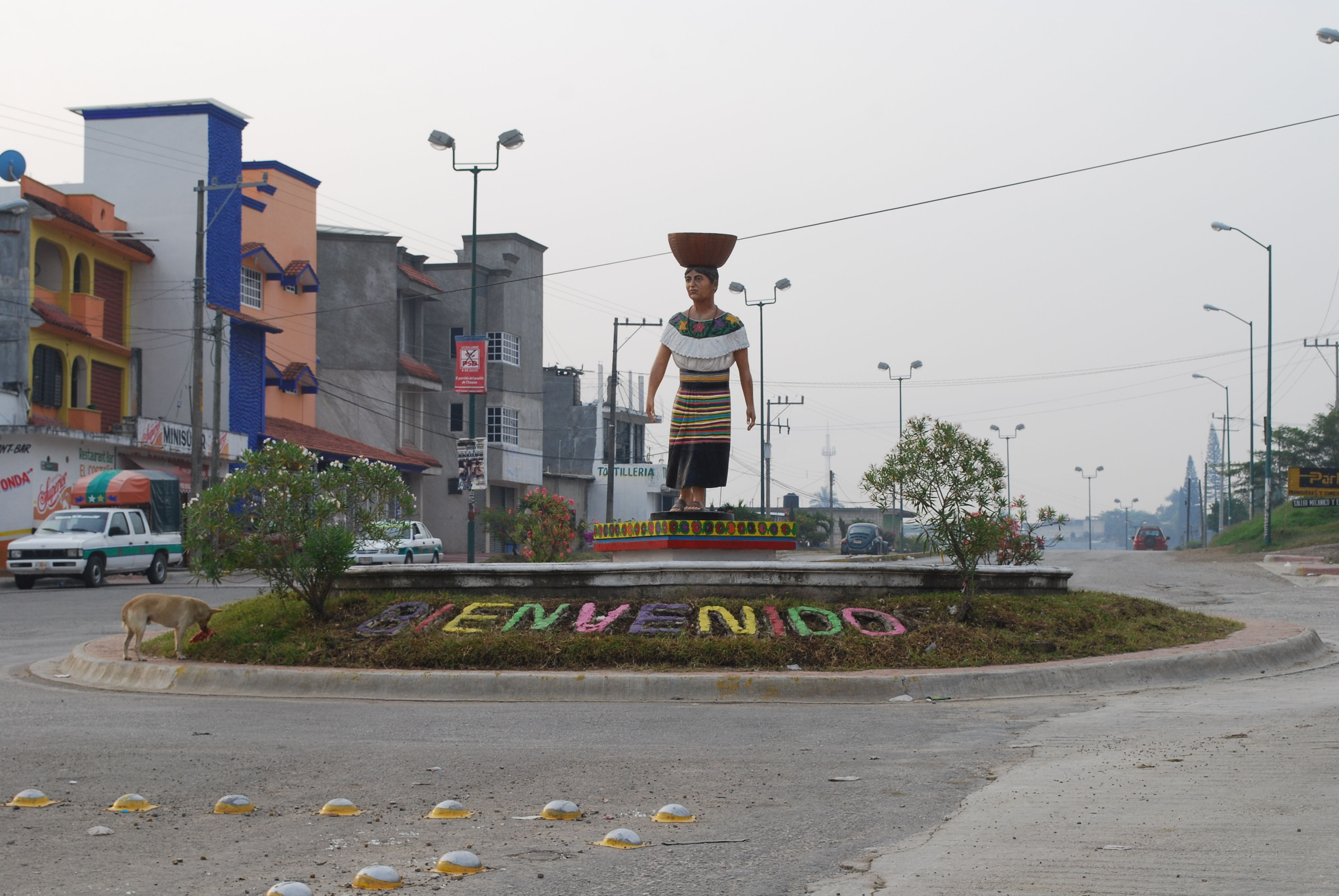 Statue of woman, at the entry of the city of Ocosingo, Chiapas, Mexico